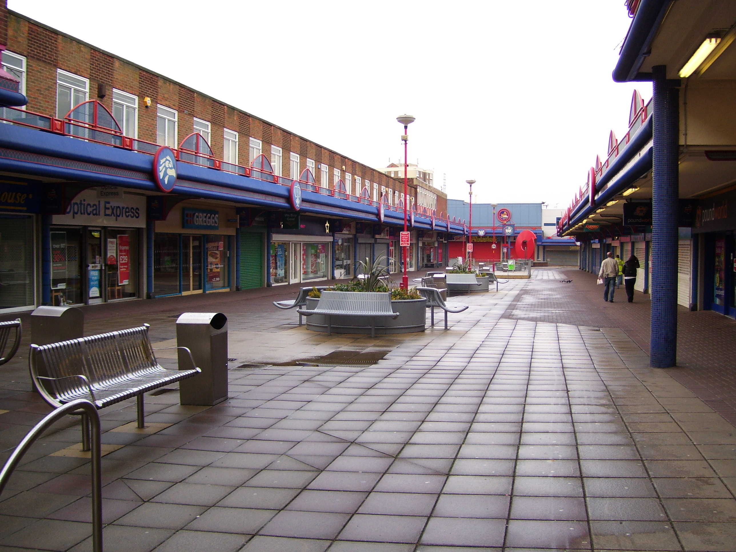 The Viking Centre shopping centre, Jarrow, Tyne and Wear, England. It opened in 1961 as the first Arndale Centre in the UK.